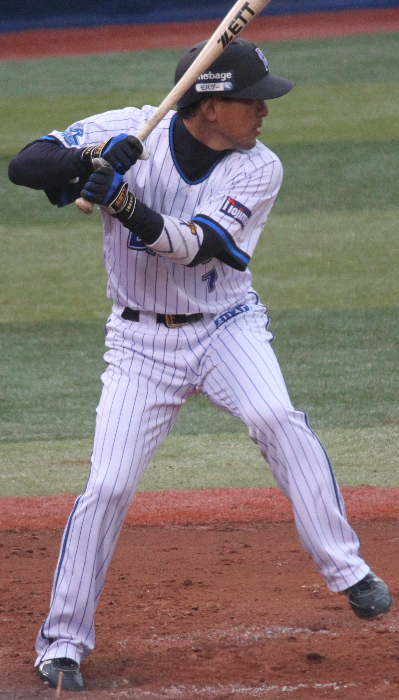 Tatsuhiko Kinjoh, outfielder of the Yokohama DeNA BayStars, at Yokohama Stadium.